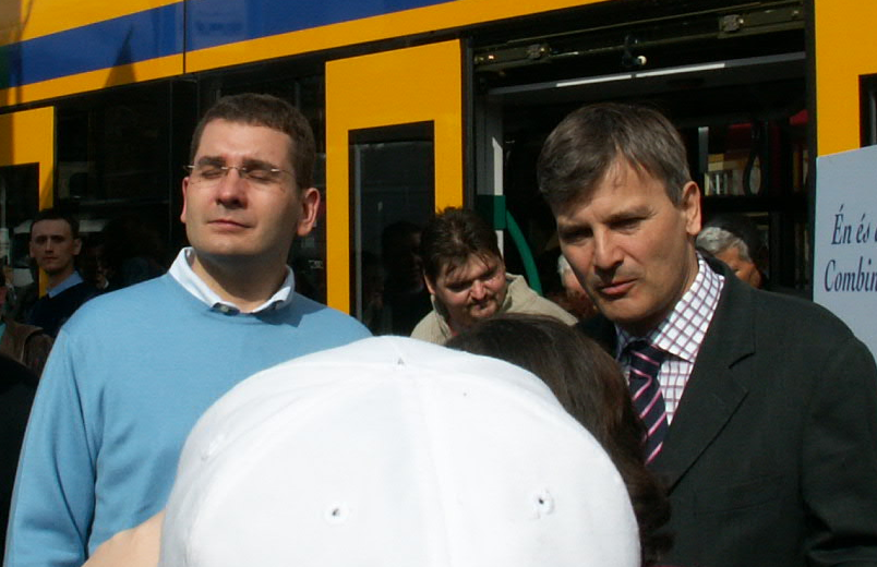 János Kóka (minister of economics) and Gábor Demszky (Mayor of Budapest) at the presentation of the first Siemens Combino tram in Budapest